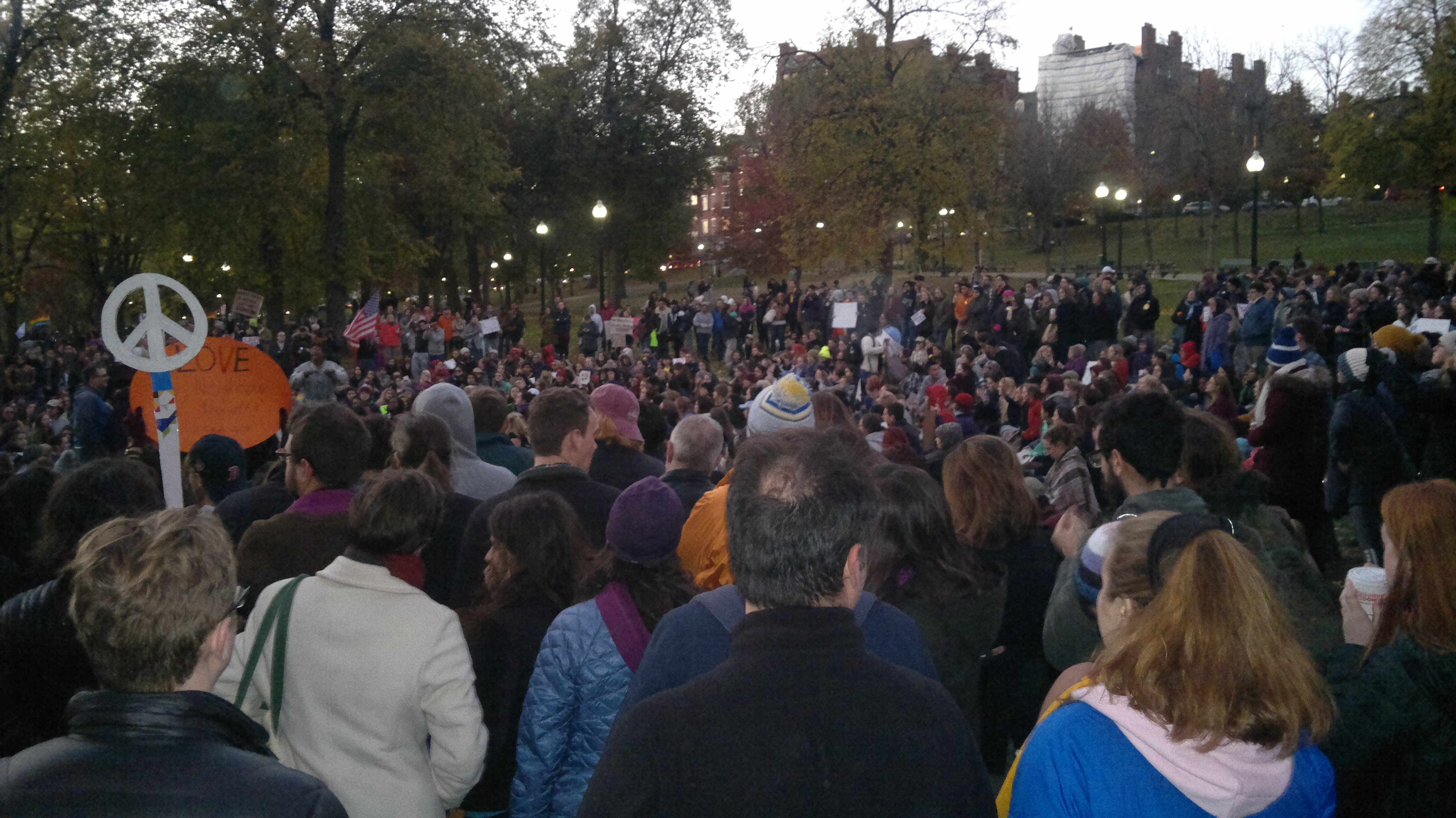 2016-11-11-1418_AntiTrumpRally-Boston